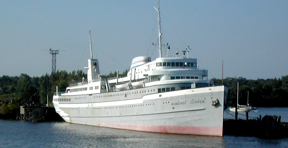 Photograph of the mothballed S.S. Milwaukee Clipper, taken from the Lake Express High Speed Ferry